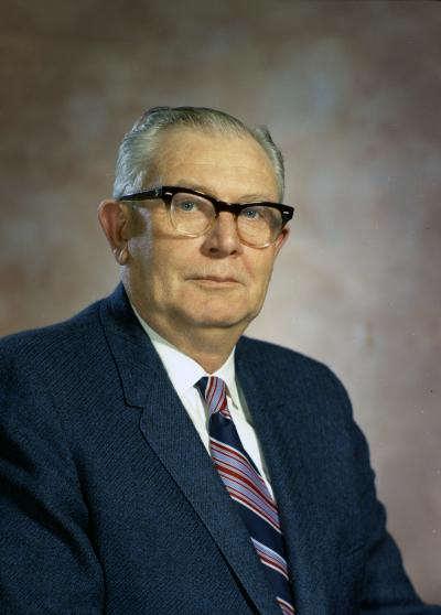 Representative Helmut L. Jueling, 1971